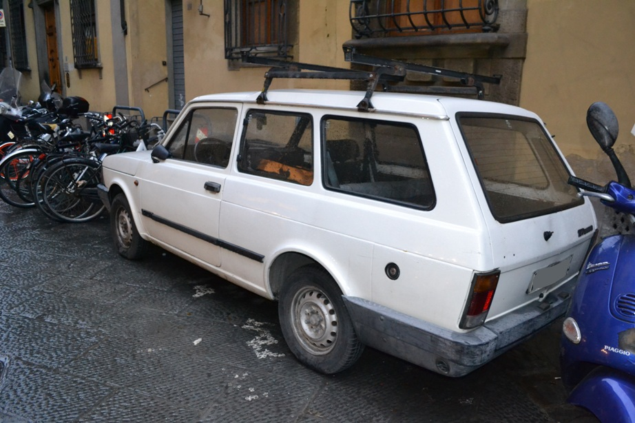 Fiat 127 Panorama in Florence, 2018, rear